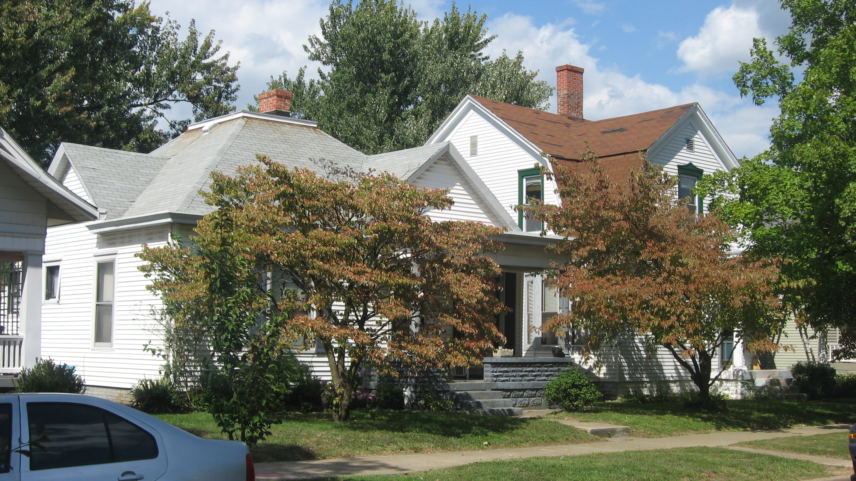 Houses on the northwestern side of Shelby Place in New Albany, Indiana, United States. From left to right, they are: 1513 Shelby Place: built 1912, vernacular cottage 1515 Shelby Place: built 1908, Dutch Colonial Revival architecture; local Methodist parsonage This block is part of the Shelby Place Historic District, a historic district that is listed on the National Register of Historic Places.